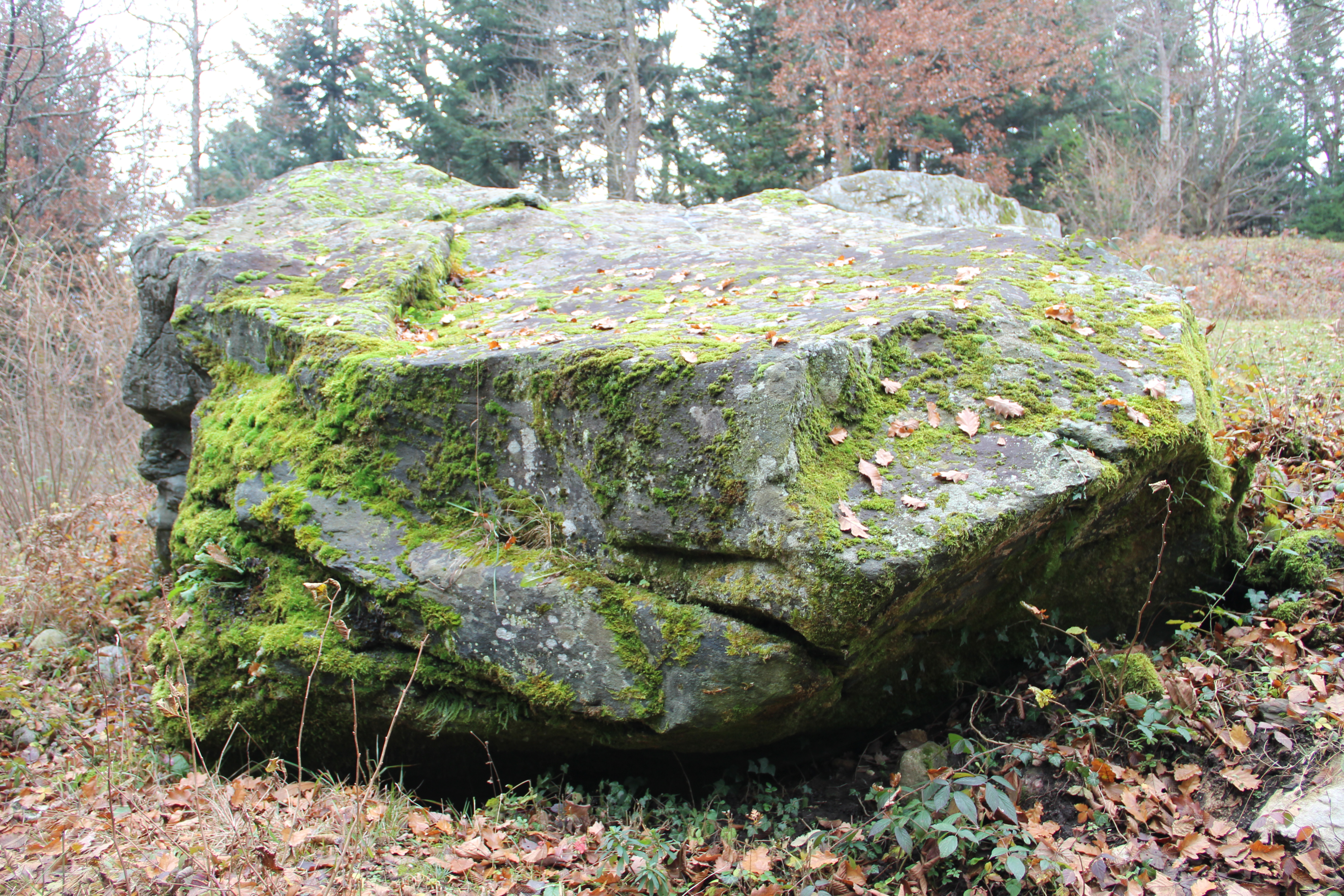 Pierre du Paray, an erratic bloc near Saint-Jean-de-Gonville.